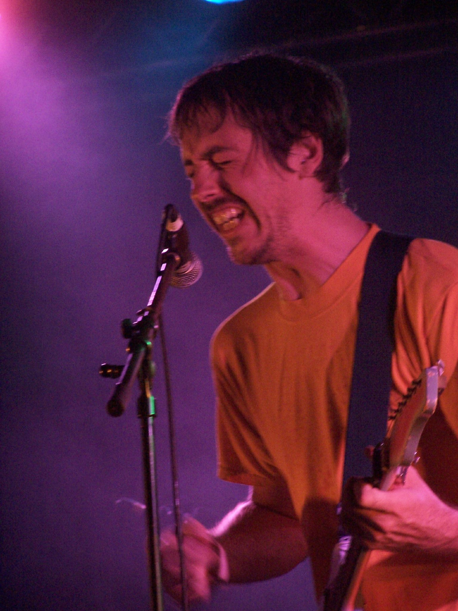 Animal Collective, Leeds Festival